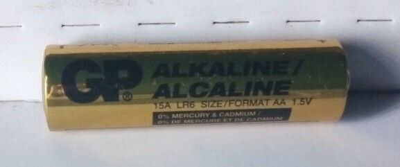 A battery used in my wireless keyboard.